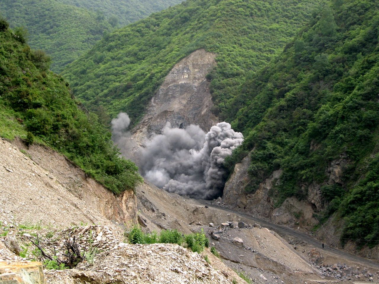 The following is the author's description of the photograph quoted directly from the photograph's Flickr page. "building the dam near Wanglang nature reserve. it seems they want to get some rock from the mountain. about 15-20 trucks were waiting to get the rockes... This picture has been used on the WWF panda success story website. "